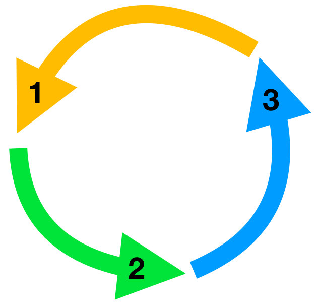 Three-part cycle diagram, with three arrows labeled as 1, 2, 3.